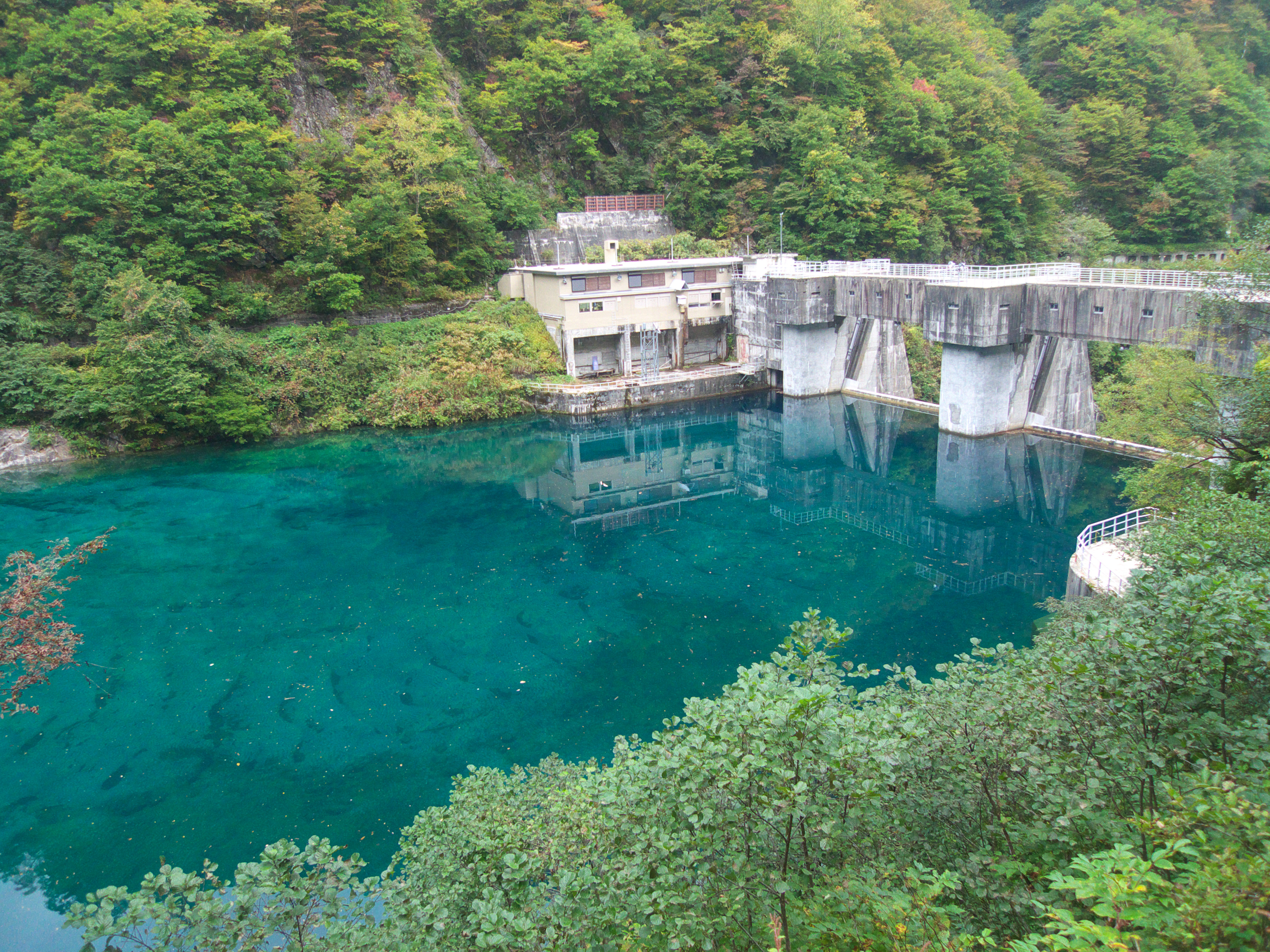 Sennindani Dam reservoir